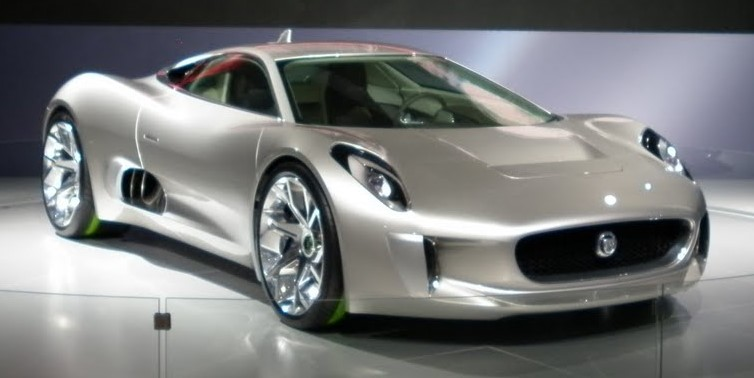 A Jaguar C-X75 concept car at the 2010 Paris Motor Show.